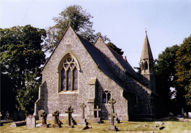 St Mary's parish church, Lambourn Woodlands, West Berkshire, seen from the east